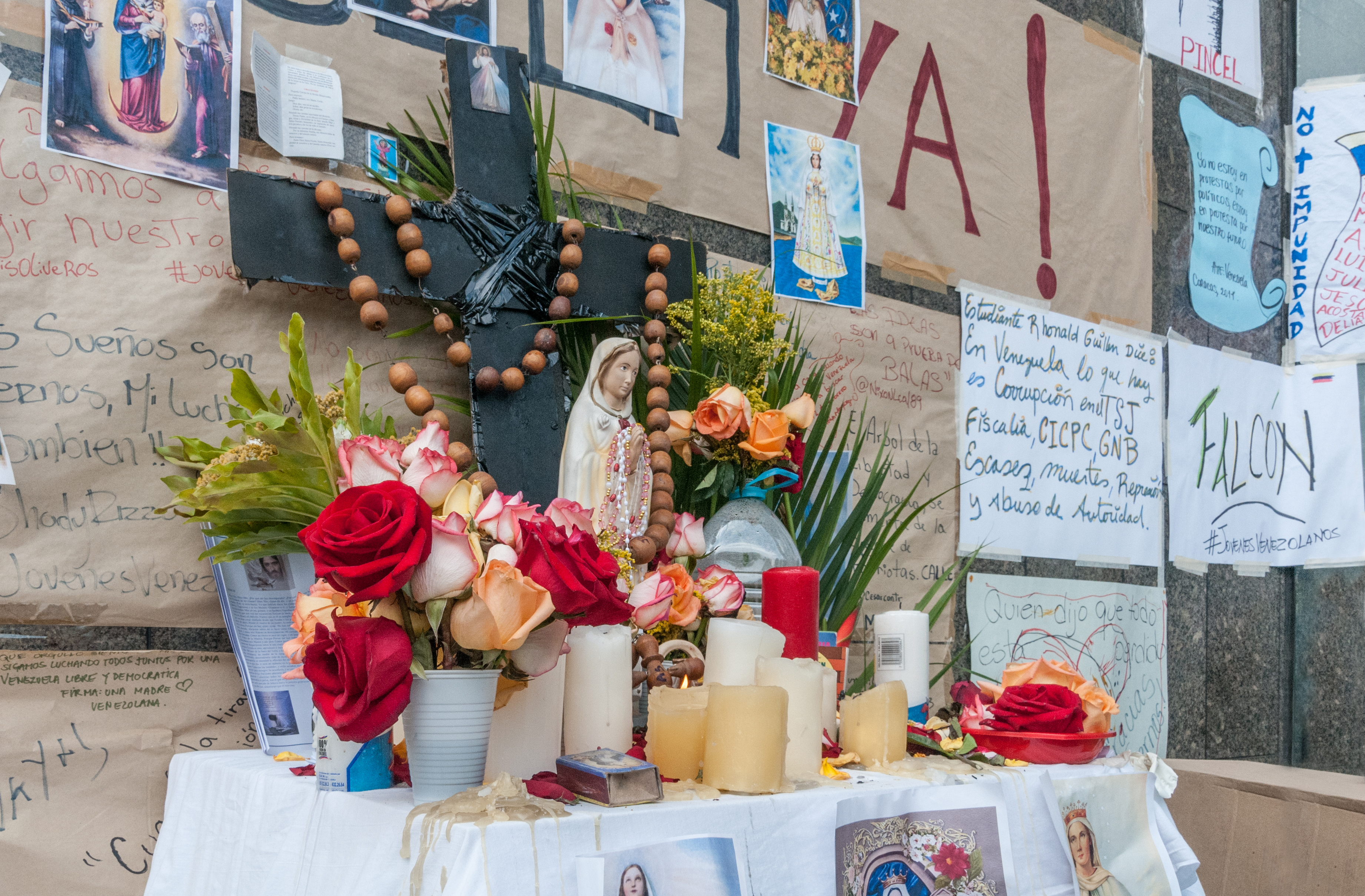 Prayer altar at the UN headquarter building in Altamira, Caracas, Venezuela during the hunger strike for a ruling by the UN.[1]